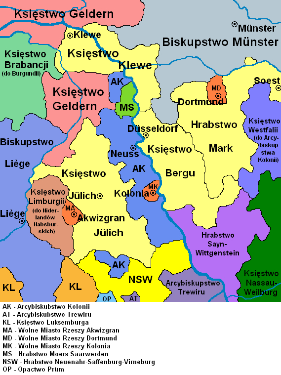 Map of duchies of Cleves, Berg, Mark and Jülich, 1477.